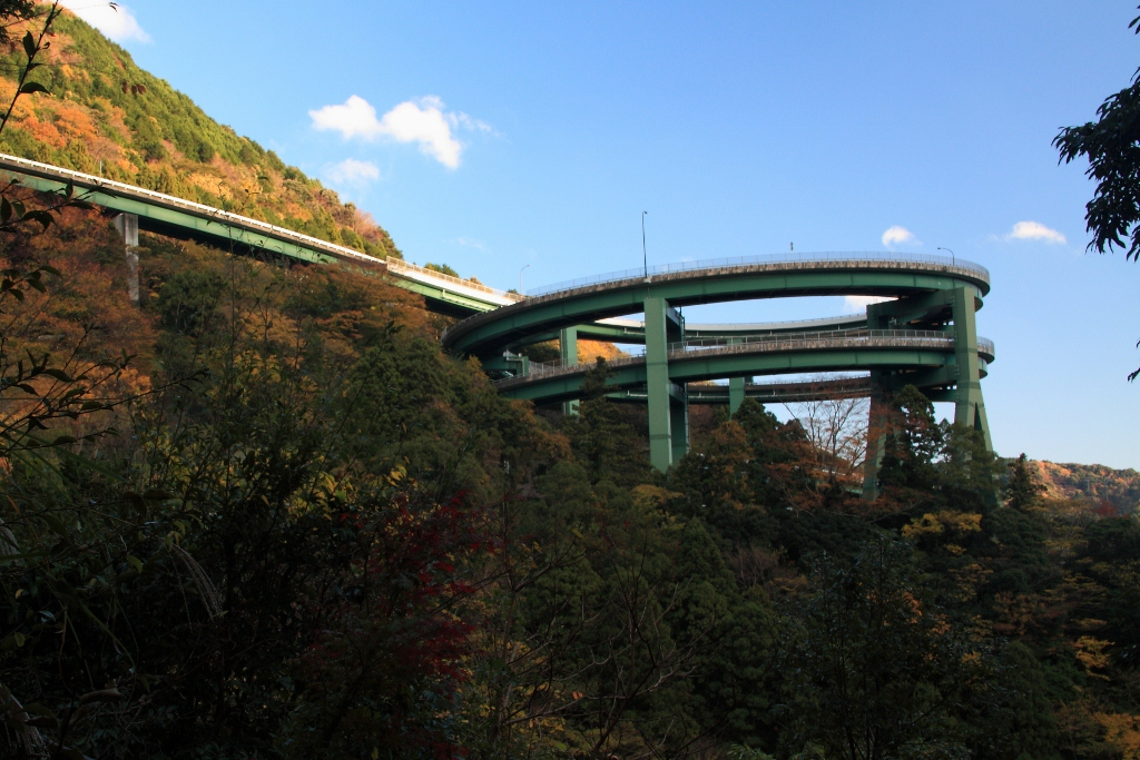 The Kawazu loop bridge in Kamo-gun, Shizuoka Prefecture, Japan